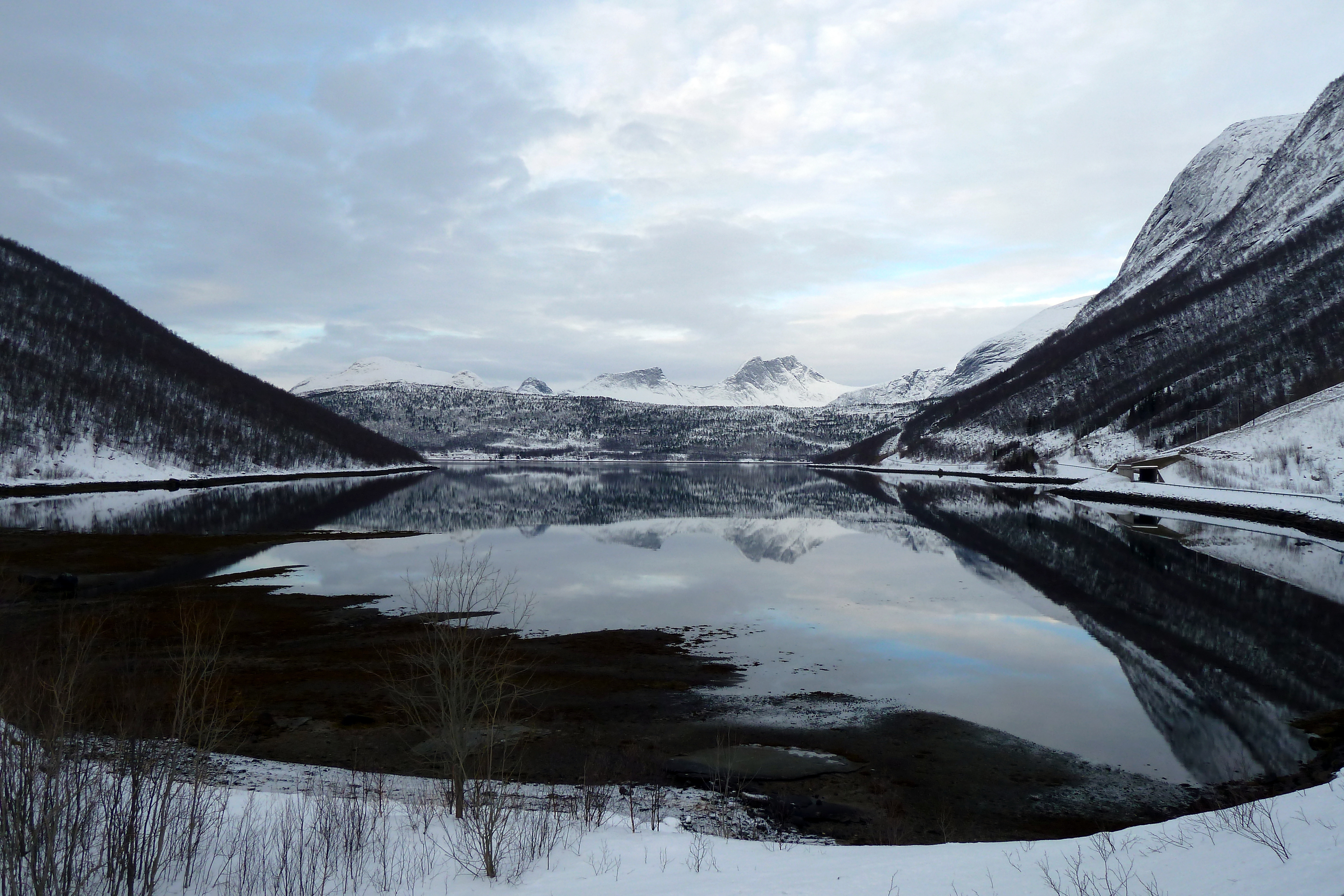 Tømmeråsfjorden, a fjord in Tysfjord, Norway.